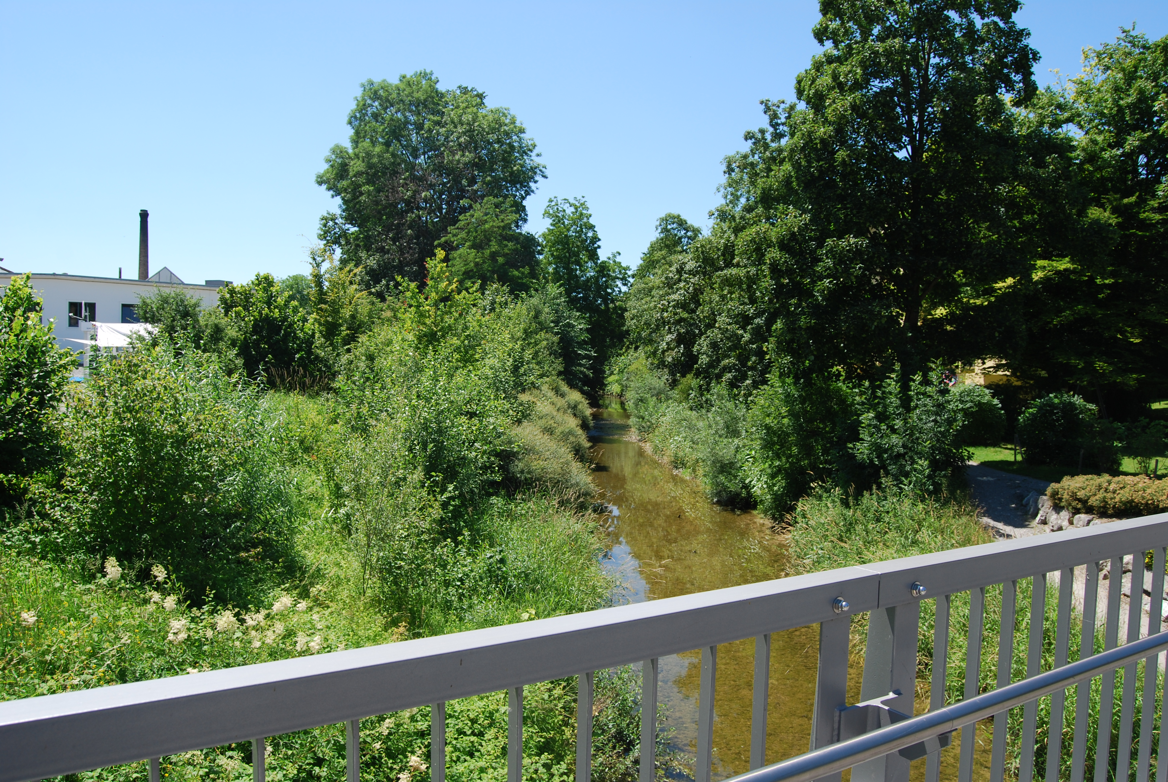 Murg at Sirnach, canton of Thurgovia, Switzerland